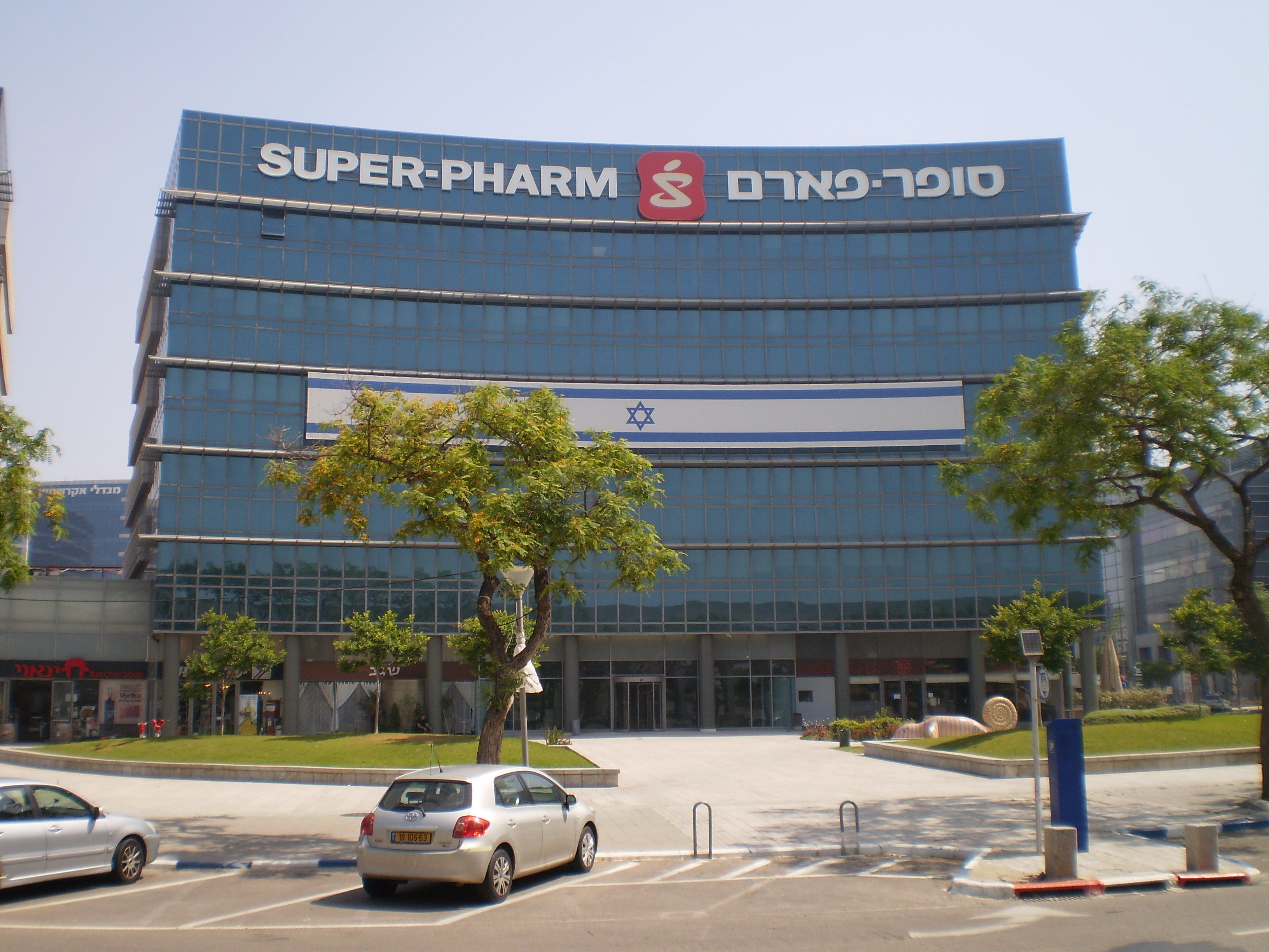 Super Pharm heaquarters, Herzliya